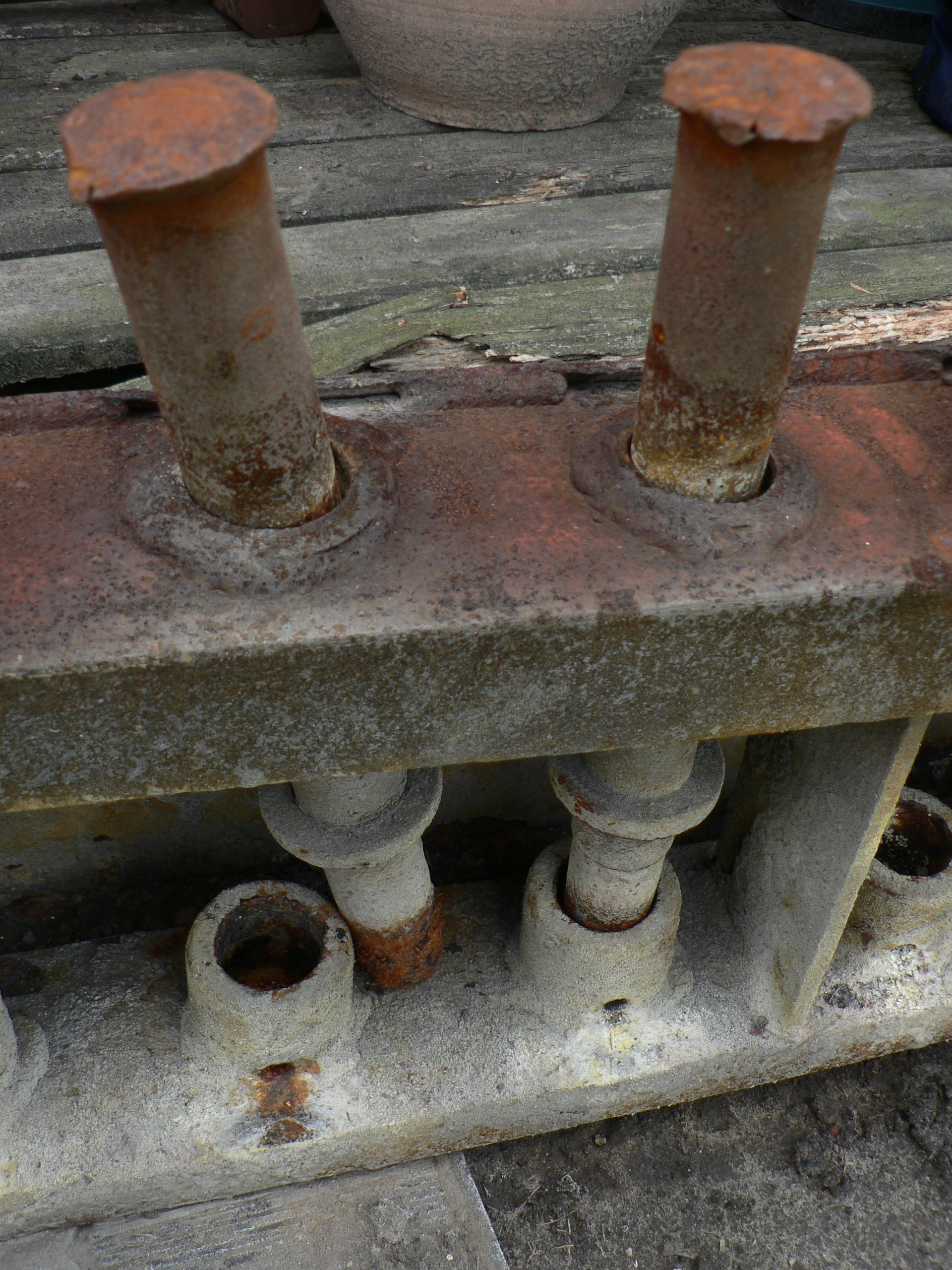 party explosion battery - detail